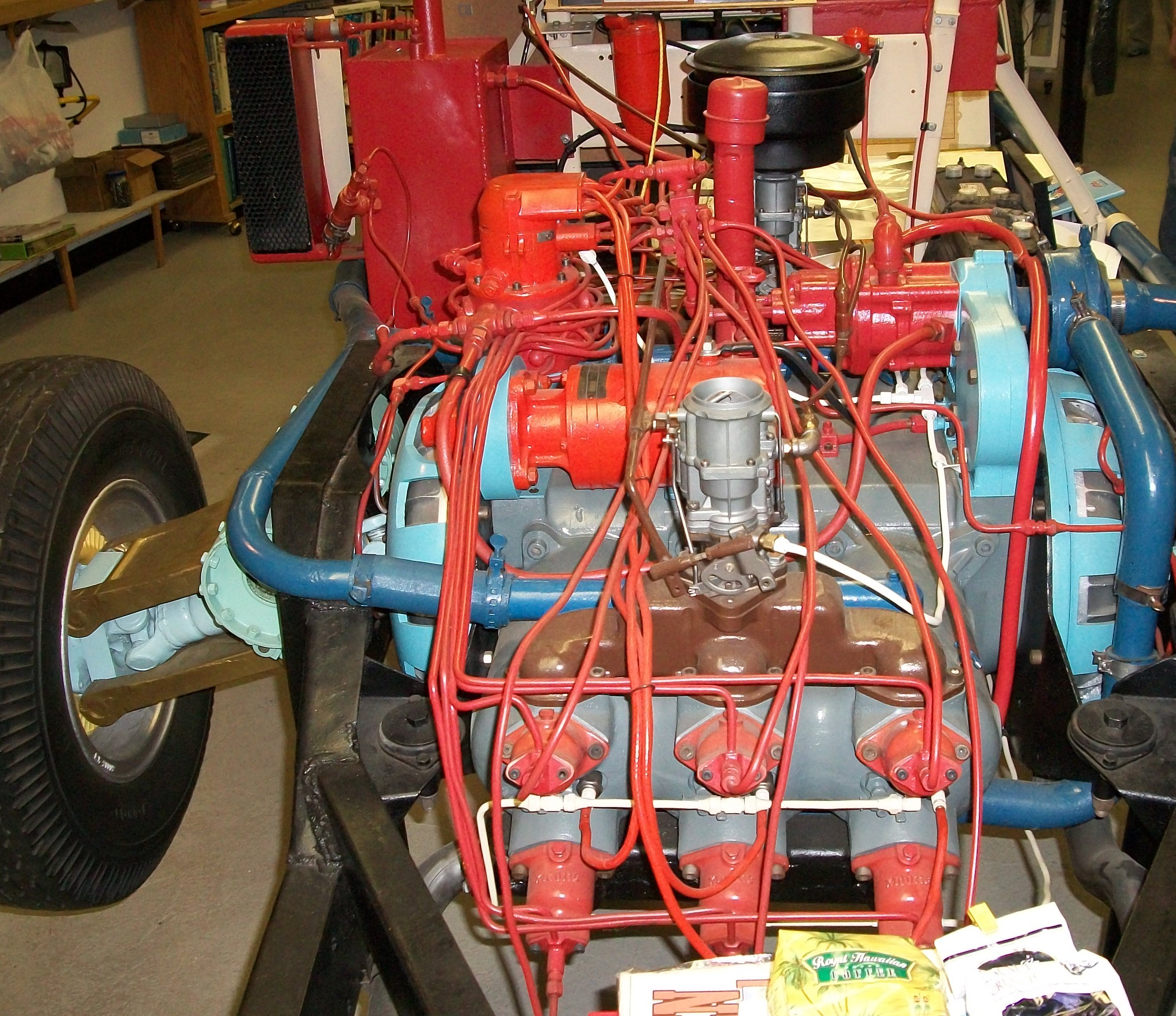 Tucker 589cu.in. direct drive engine mounted on Tucker test-bed chassis. Note the individual torque converters, hydraulic lines to each valve actuator, and the rubber disc-type suspension used on the Tin Goose only.